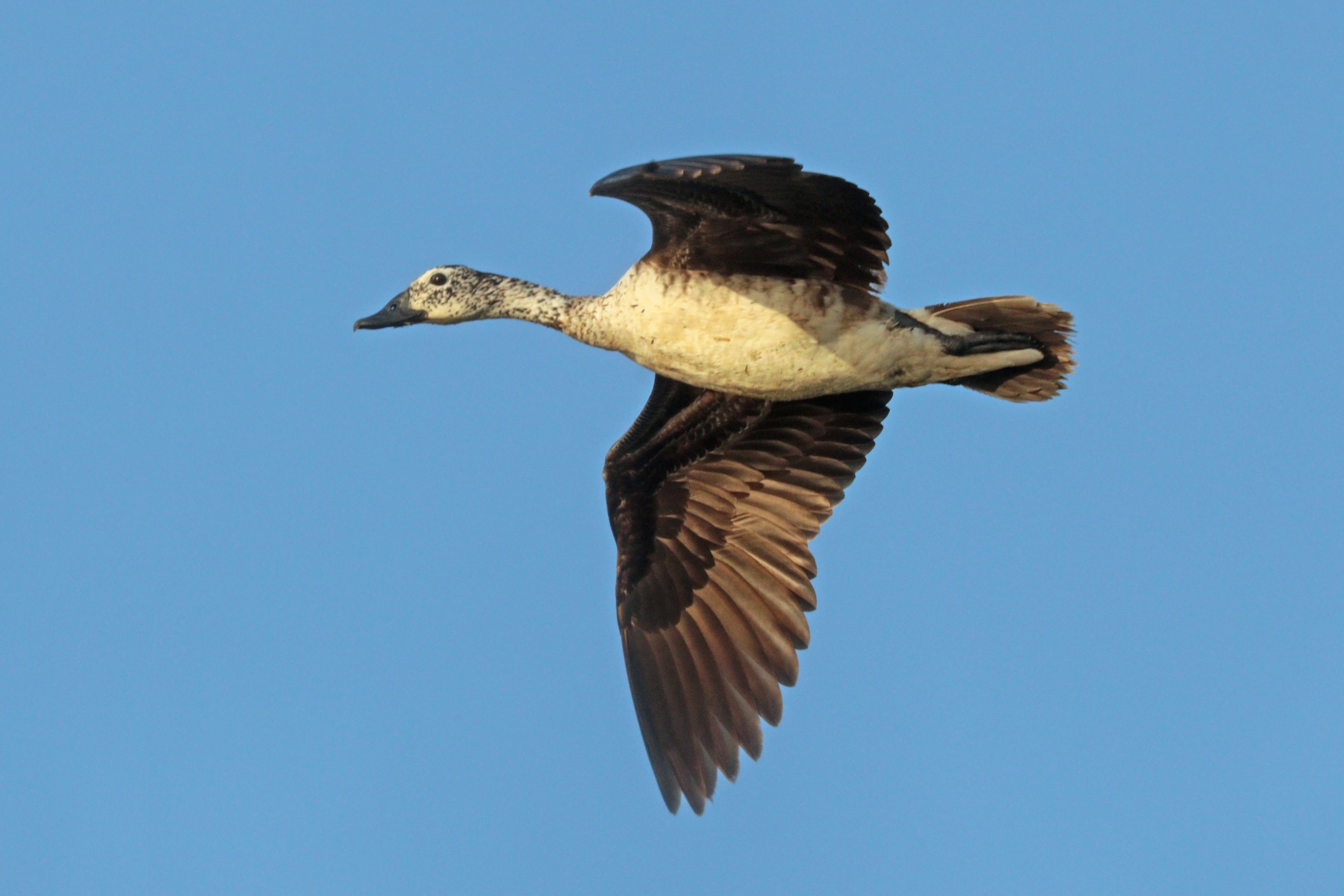 Knob-billed duck (Sarkidiornis melanotos) female in flight, Jojawar, Rajasthan, India